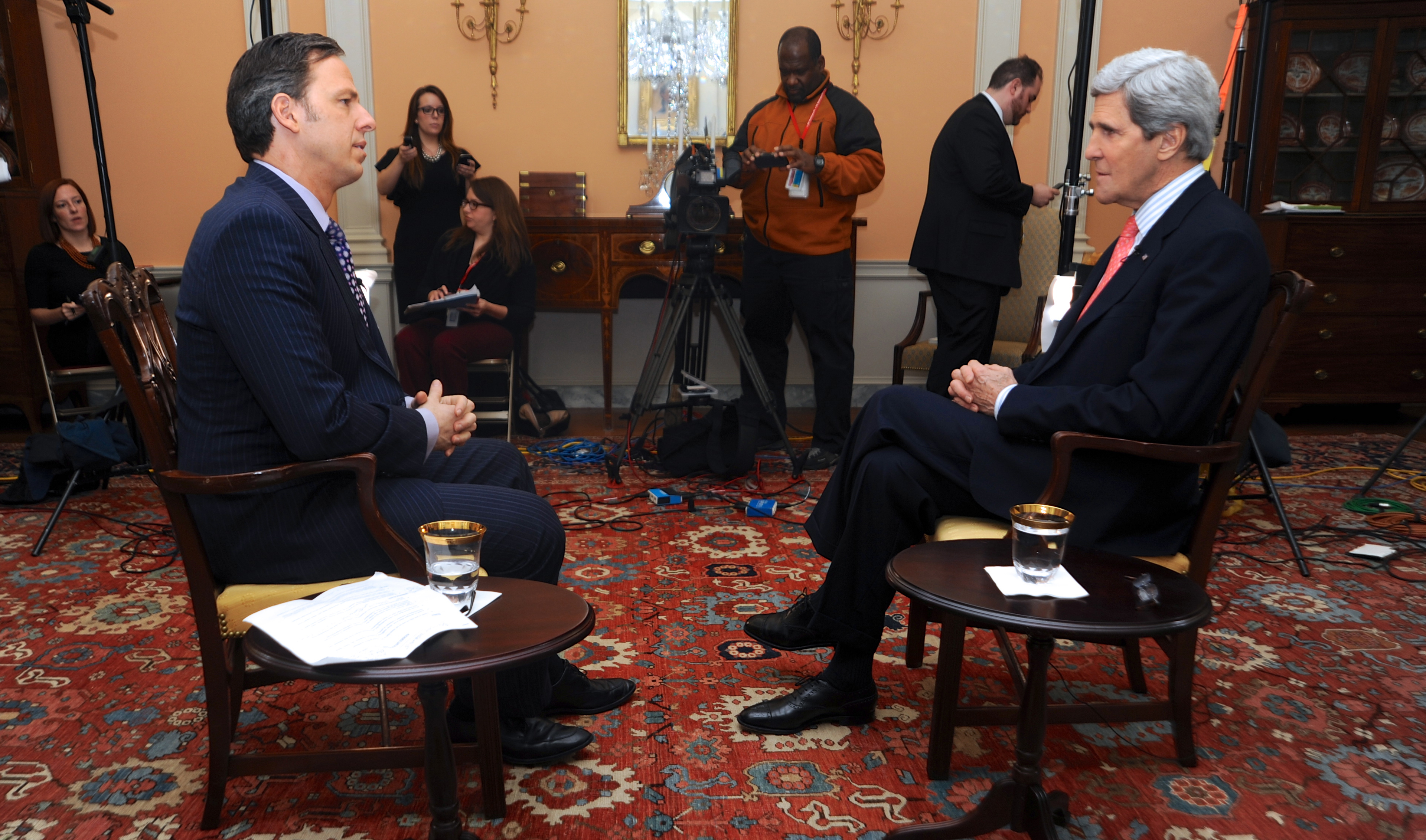 U.S. Secretary of State John Kerry and CNN Chief Washington Correspondent Jake Tapper, anchor of the network's 'The Lead,' settle in for a one-on-one interview at the U.S. Department of State's Monroe Room in Washington, D.C., on February 5, 2014. [State Department photo/ Public Domain]